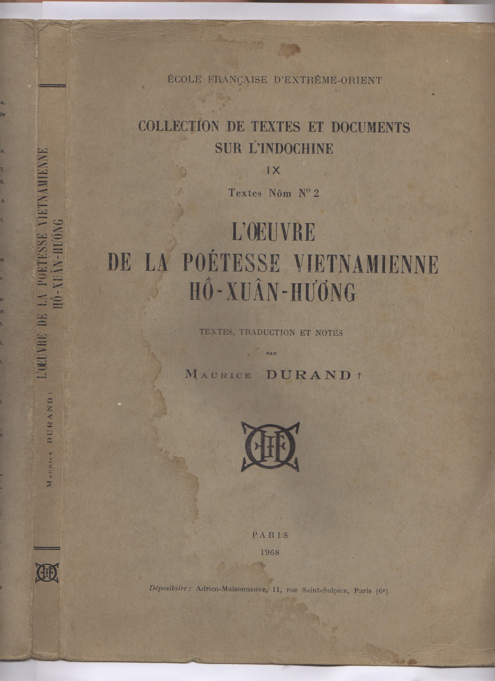 Cover of the book by Maurice Durand "L'œuvre de la poétesse vietnamienne Hồ-Xuân-Hương. Textes, traduction et notes". Ecole française d'Extrême-Orient, Collection de textes et documents sur l'Indochine; n° 9 ; textes nom ; n° 2, Adrien-Maisonneuve, Paris, 1968. ix + 192 pp.